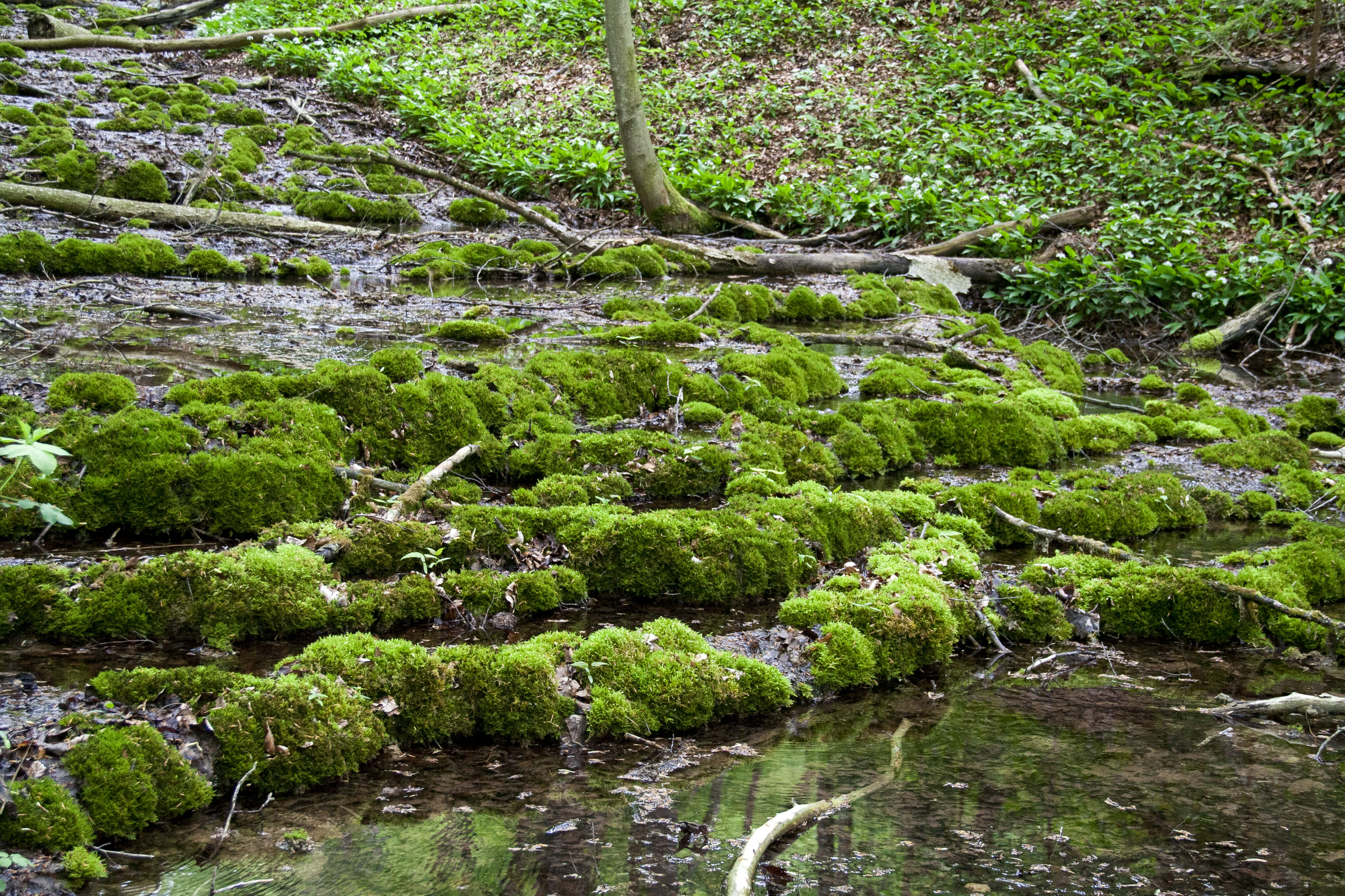 Sinter terraces at "Heinrichsgraben" near Greding-Untermässing in Roth district, Bavaria, Germany; protected landscape part (GLB) in Altmühl Valley Nature Park and geotope no. 576R003